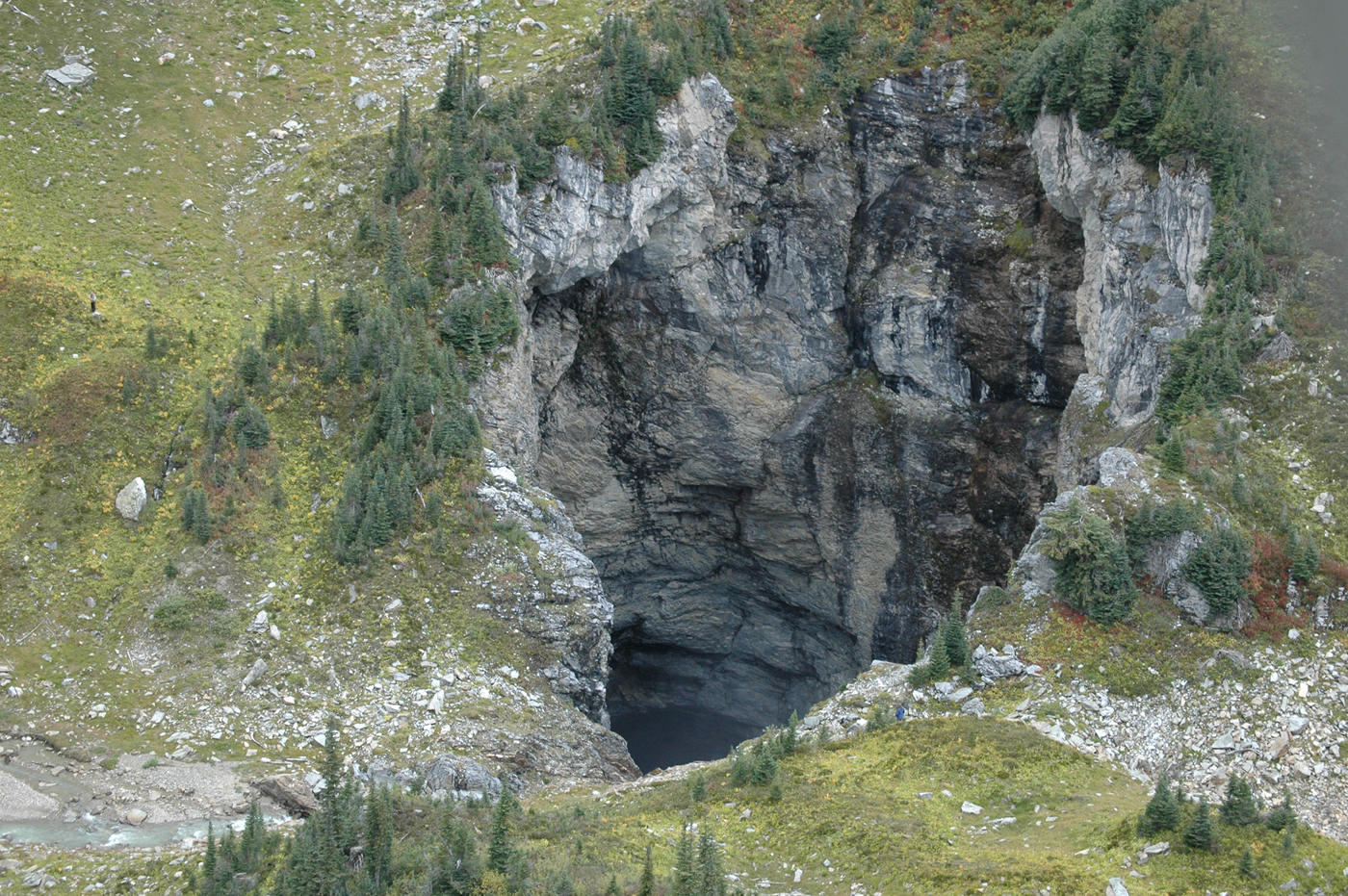 Circling the cave to obtain high resolution photographs for 3D rendering, Lee Hollis (right) and Tod Haughton (left) stayed on the ground. (Photo by John Pollack)